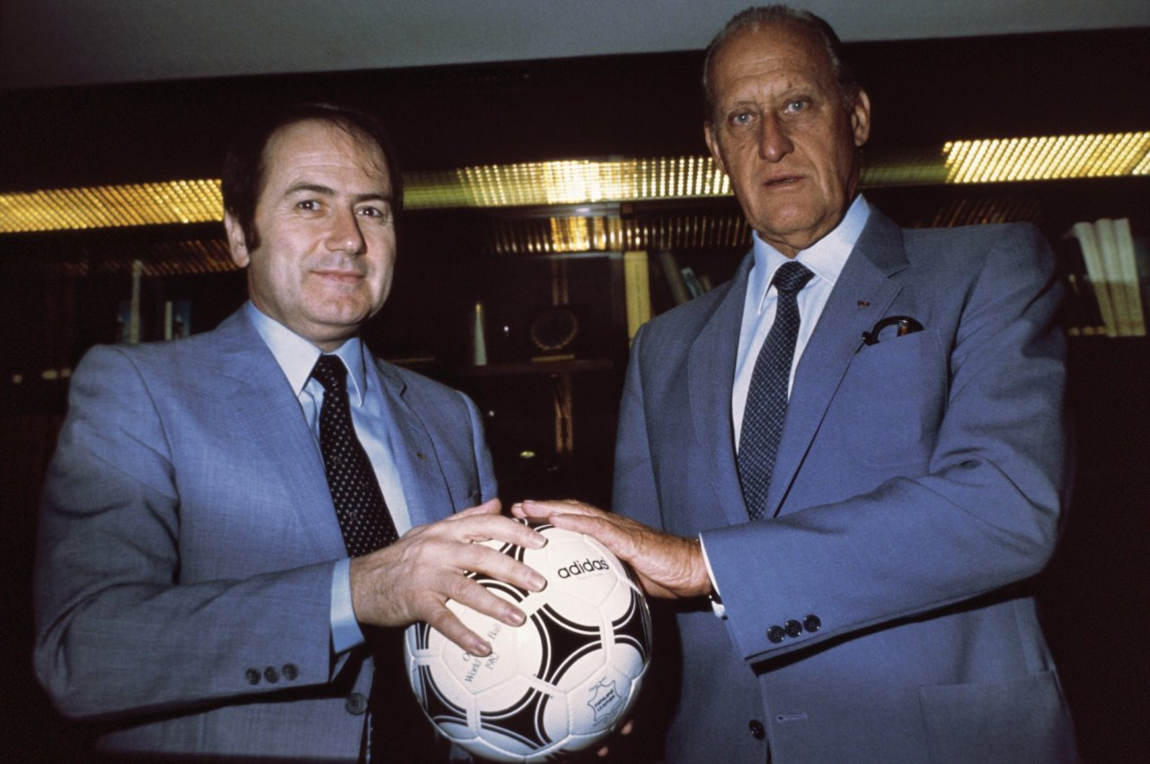 Joseph "Sepp" Blatter, General Secretary of FIFA, and João Havelange, President of FIFA, holding the Adidas Tango España.